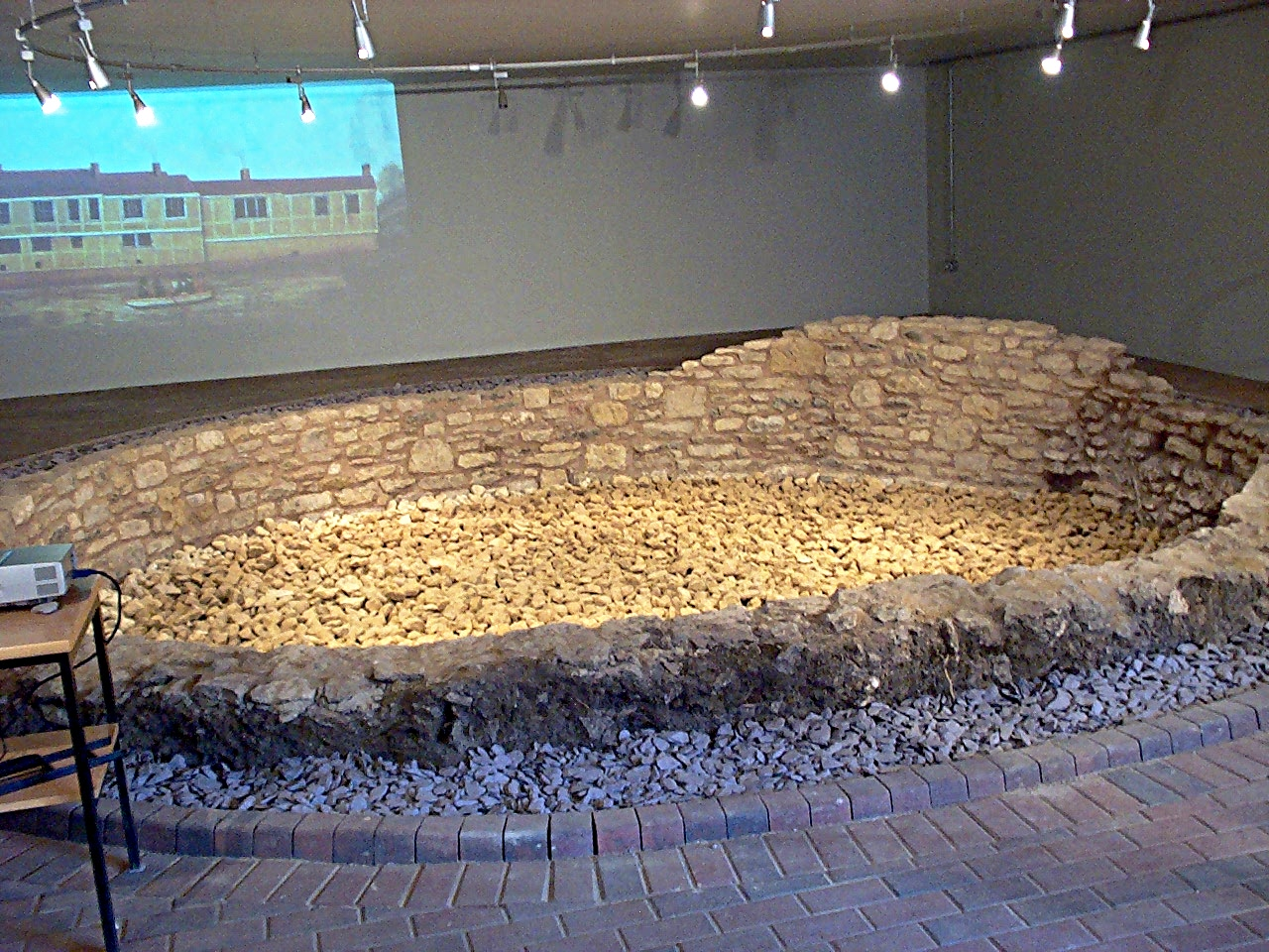 A medieval (C12/C13) lime kiln in the grounds of Bedford Castle. Discovered in 1972. It has had a shop front (part of a group on Castle Lane) built around it. It was open to the public as part of the council run "Castle Quay Weekender", which consisted of free exhibitions and performances designed to showcase this newly redeveloped and underutilized area of town.